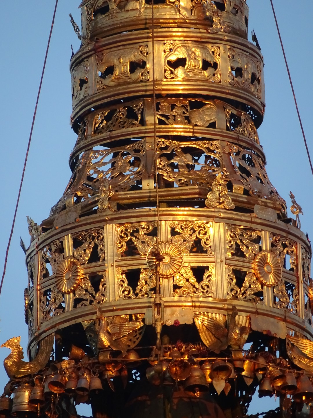 Burma Mount Kyaikhtiyo Golden Rocks Temple - detail Umbrellas